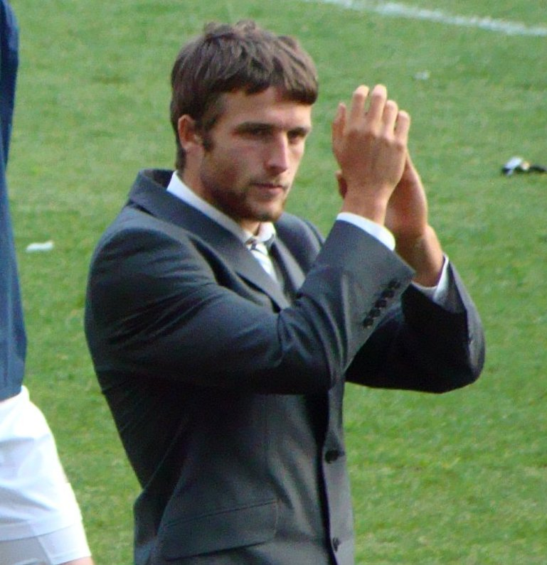 Adam Matthews from 02/05/11 Cardiff V Middlesbrough, Npower Championship, Cardiff City Stadium, Cardiff, Wales